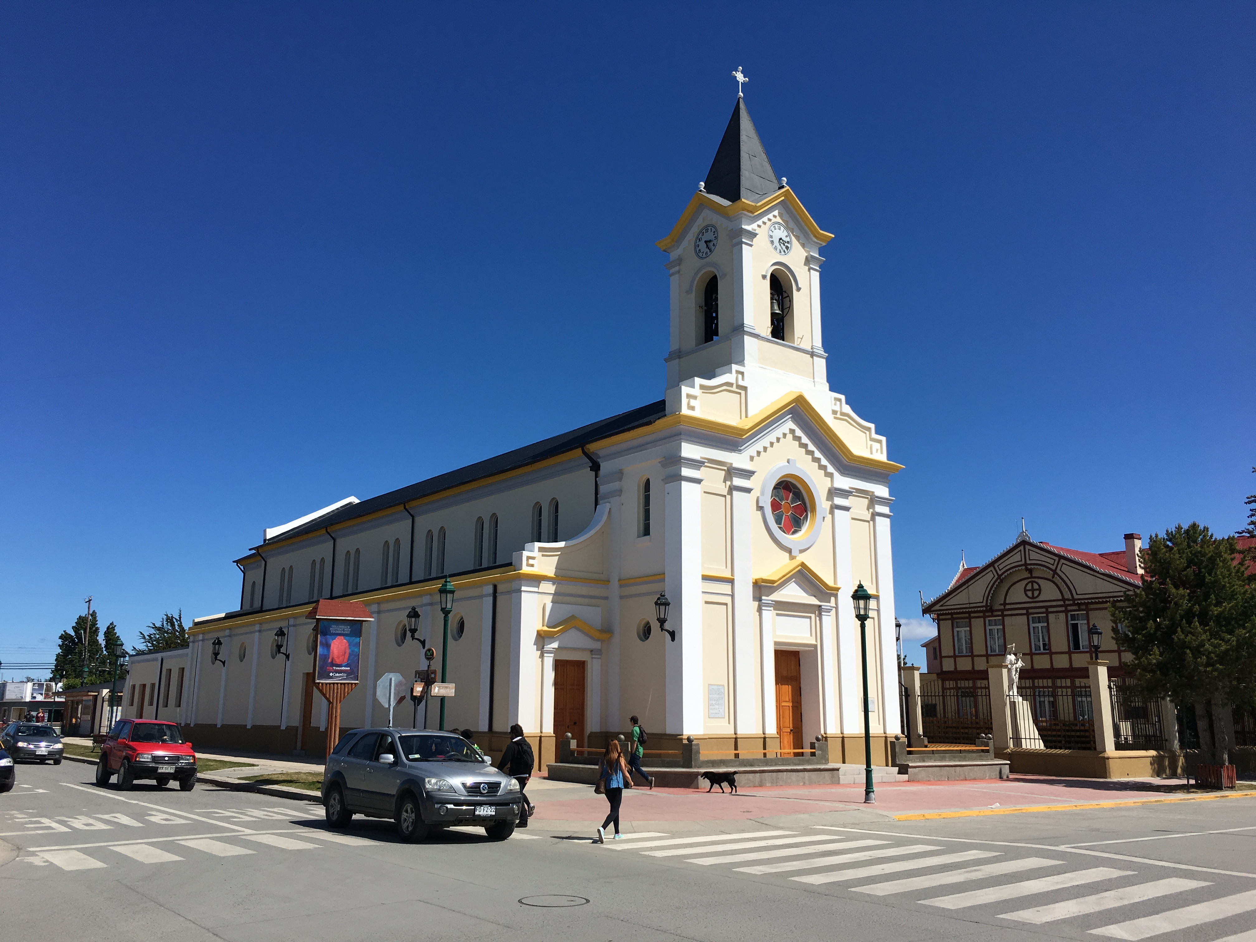 Parroquia Maria Auxiliadora in Puerto Natales, Chile